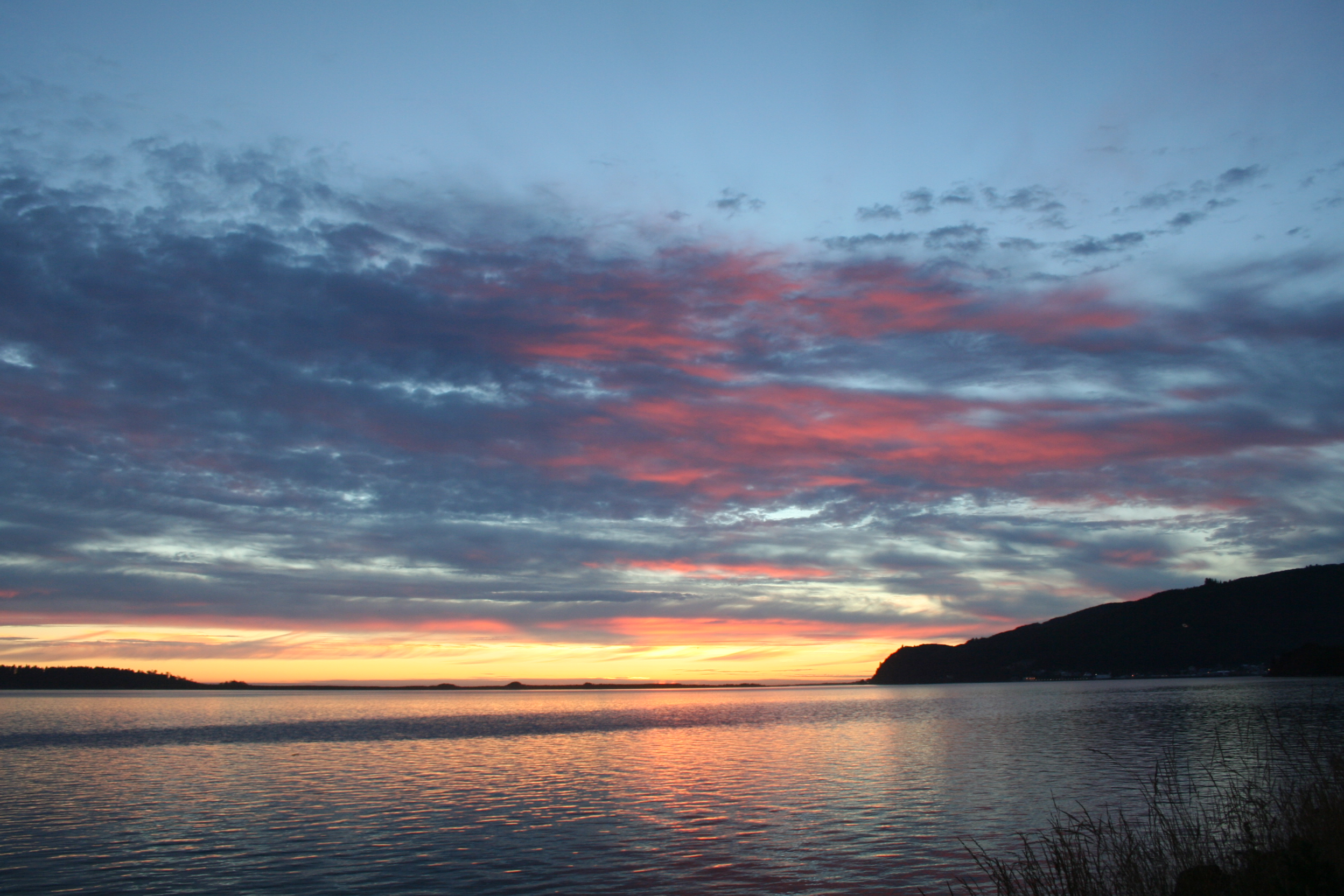 Tillamook Bay just after sunset 9:17pm PDT, from US-101 south of Bay City, Oregon (45.535934,-123.899174)